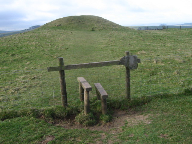 Burial mound at Gib Hill, near Arbor Low in Derbyshire